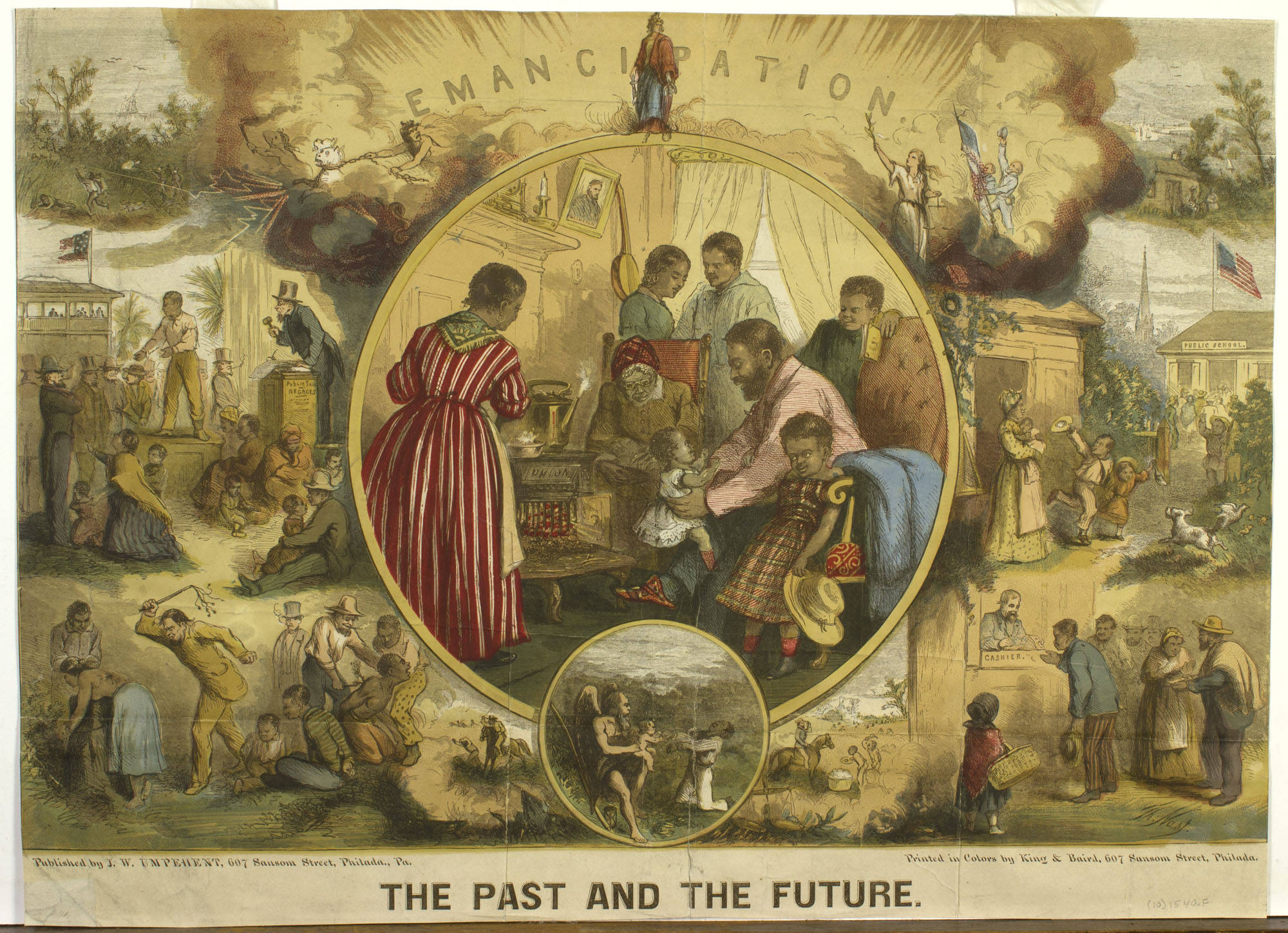 Emancipation print from 1863 depicting a series of scenes contrasting African American life before and after slavery. Central scene portrays the interior of a freedman's home where several generations of the family socialize around a "Union" stove as the mother cooks. Below this scene is a vignette depicting Father Time holding a baby angel who has the year 1863 above his head and who frees the shackles of a kneeling male slave before him. Above the central scene is a depiction of Thomas Crawford's statue of freedom as well as the hell hound Cerberus fleeing Liberty. Scenes to the right display the horrors of slavery including the flogging, branding, selling, and capturing of slaves. Scenes to the left display the forthcoming results of freedom including the exterior of a freedman's cottage, African American children attending public school, and African Americans receiving payment for their work. (10)1540.F Link to record on ImPAC, the Library Company’s digital collections catalog